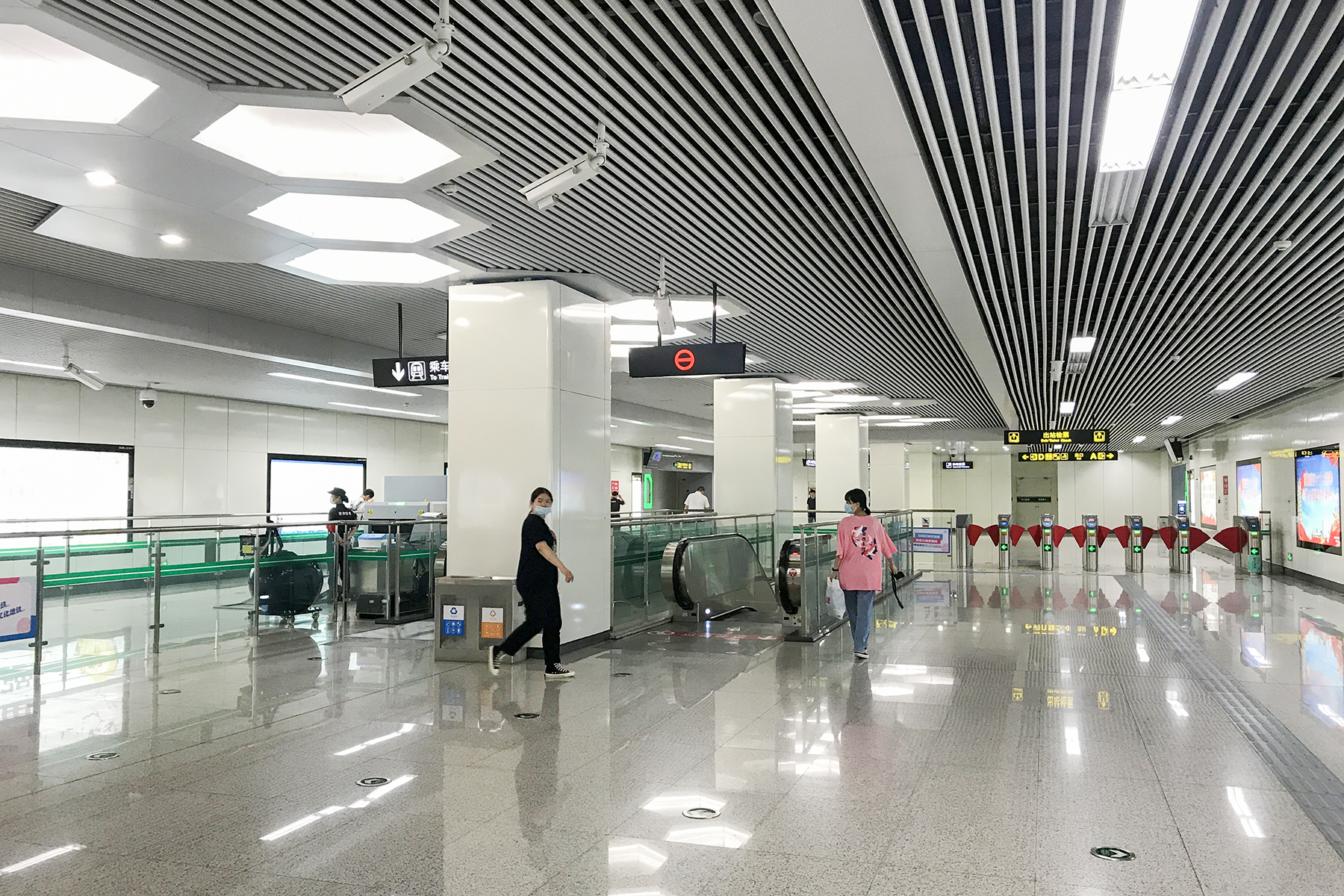 Concourse of Shakoulu Station